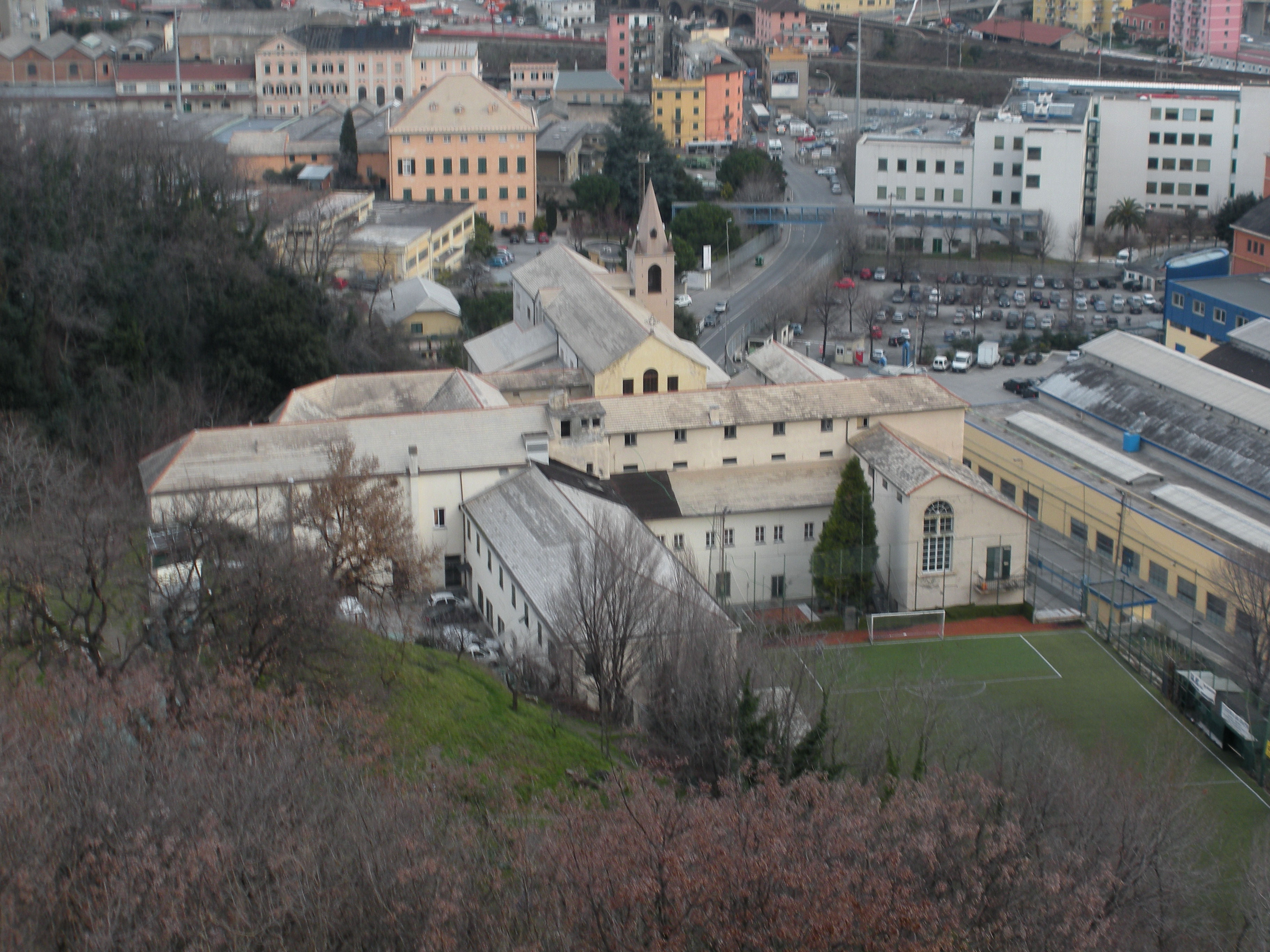 Genoa (Italy), quarter of Cornigliano, Abbey of St. Nicolò of Boschetto